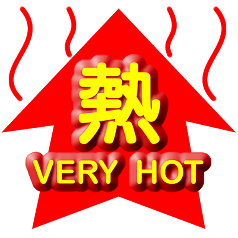 Very Hot Weather Warning